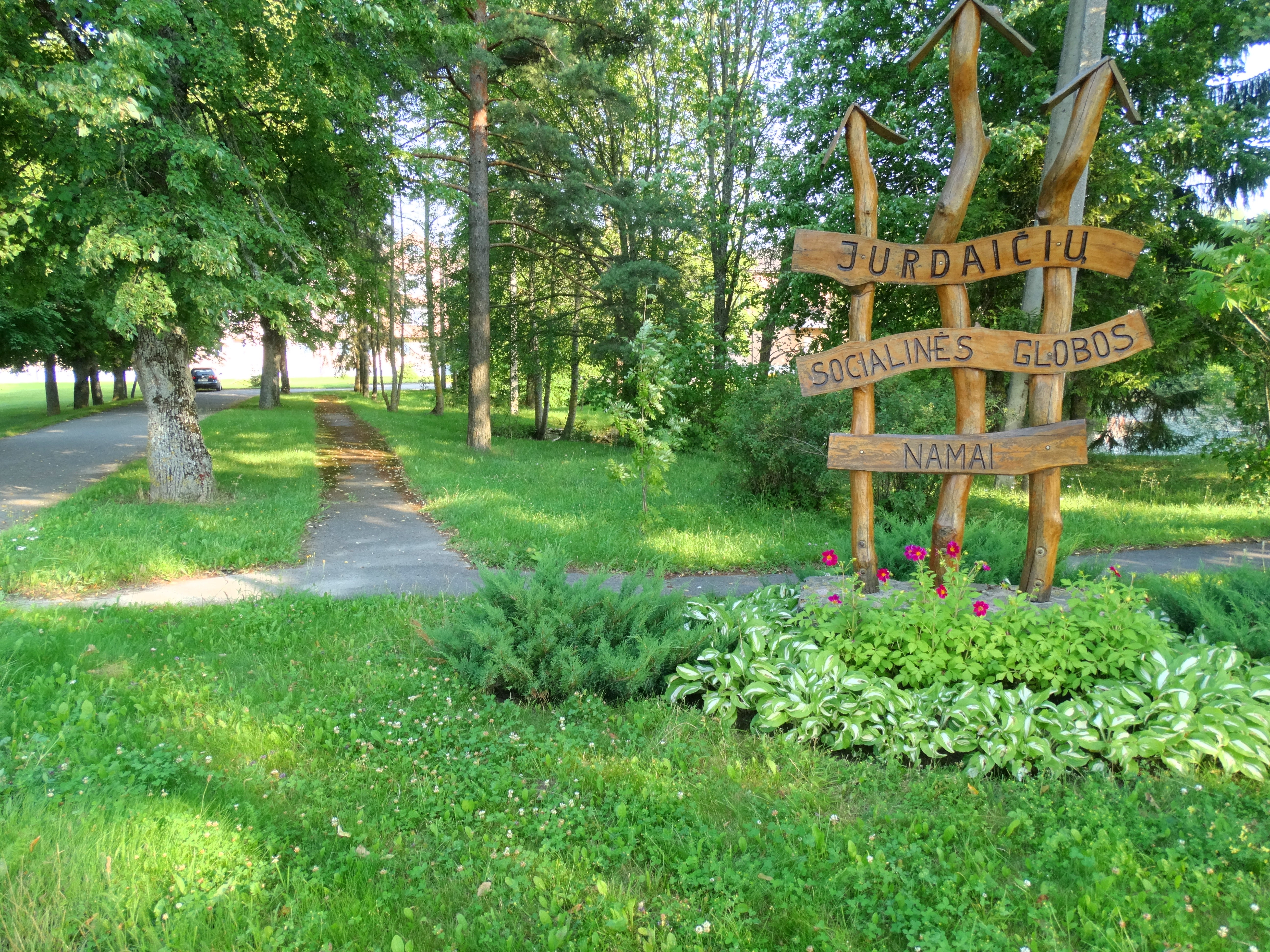 Jurdaičiai, Joniškis District, Lithuania